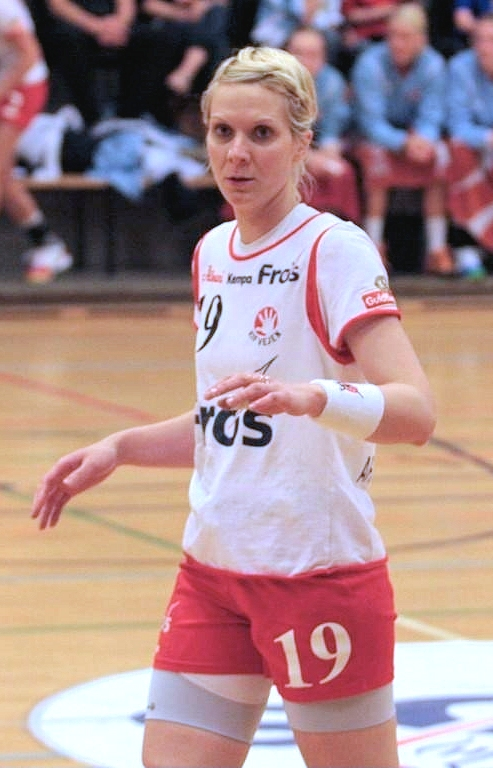 Maida Arslanagić, Croatian handball player, during a 2008/09 Danish Championship play off match between KIF Vejen and Viborg HK. The picture was taken on 25 April 2009.